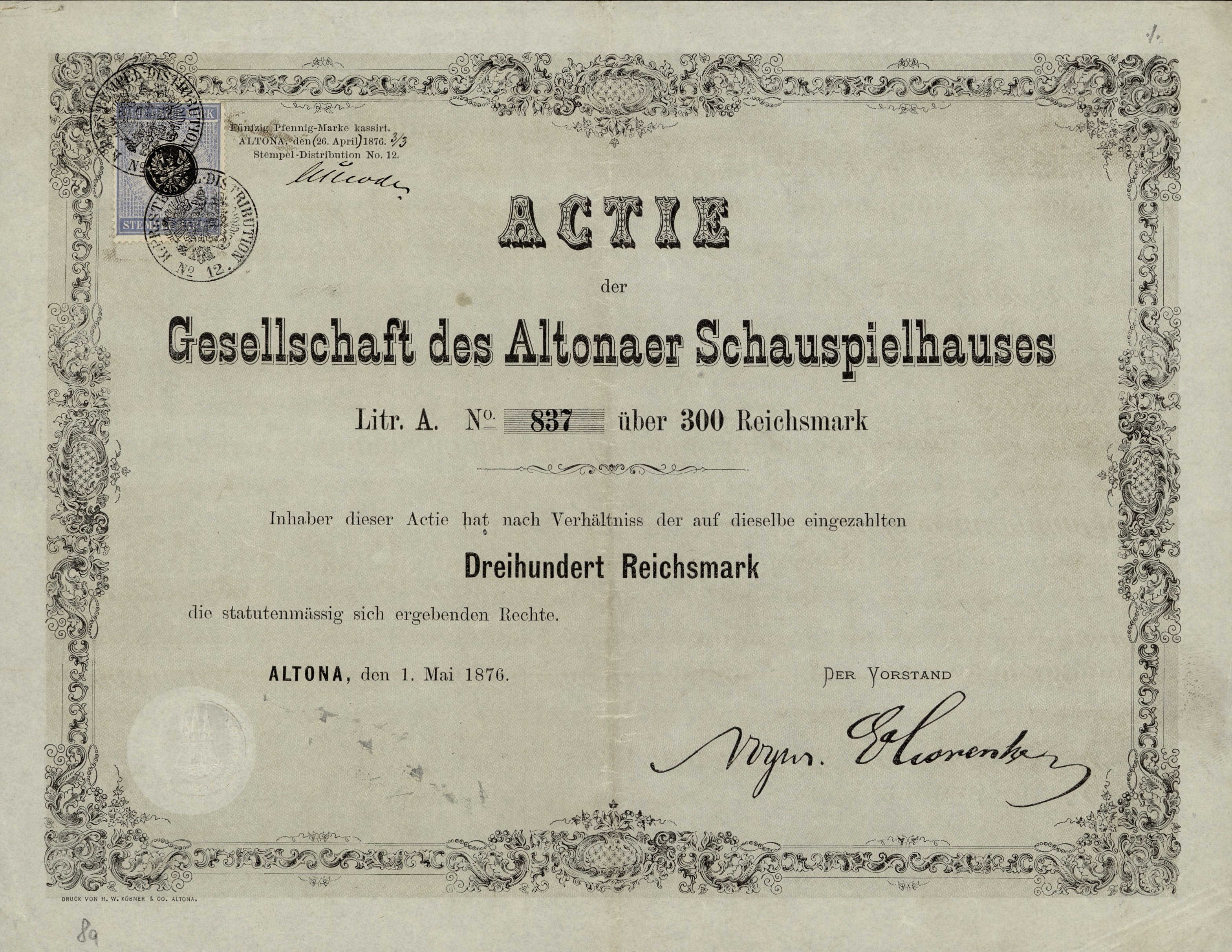 Share of the Gesellschaft des Altonaer Schauspielhauses, issued 1. May 1876